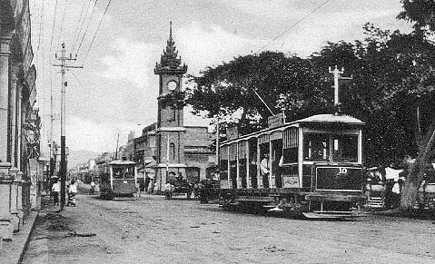 Electric tramway at the clock tower of Mandalay